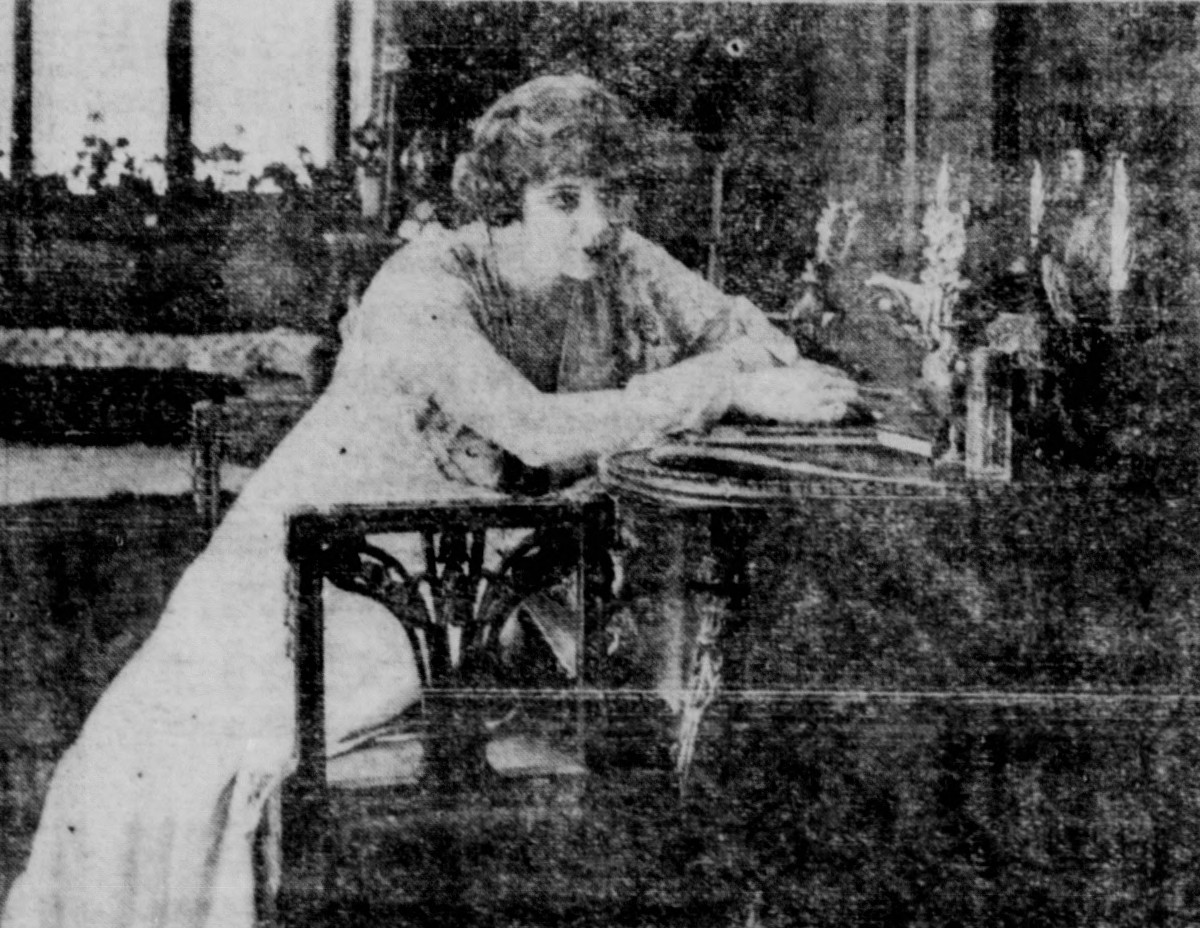 Scene from the film Via Wireless in a newspaper